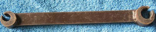 Tool used by carpenters to bend hinges. photo: B. M. Askholm, april 2006. This file was made by B. M. Askholm, Please credit this: B. Askholm foto An email to B. Mathias at baskholm(--) would be appreciated too.